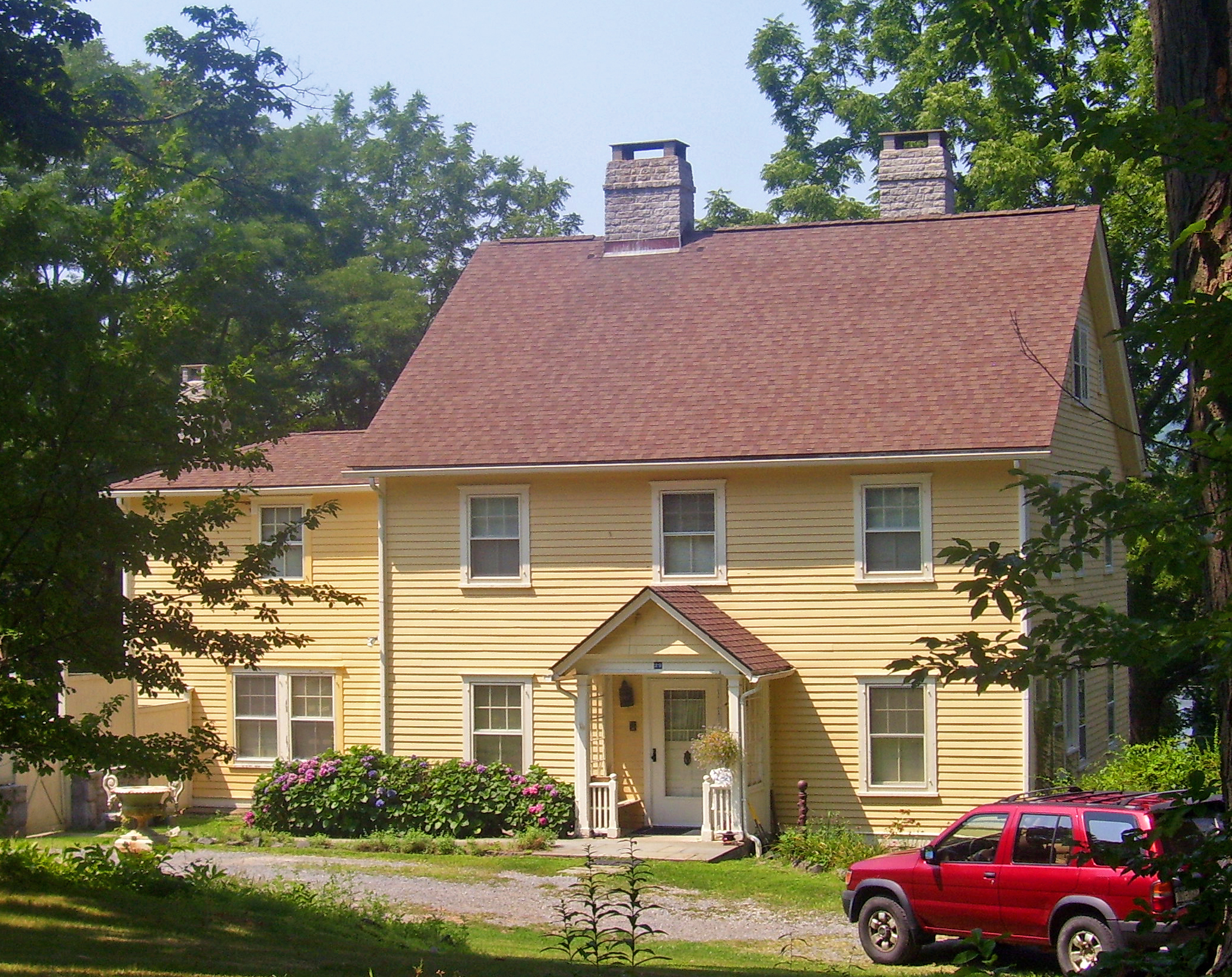 Glenfields, estate of Archibald Gracie King